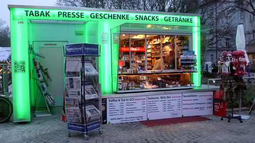 Kiosk an der Münchner Freiheit